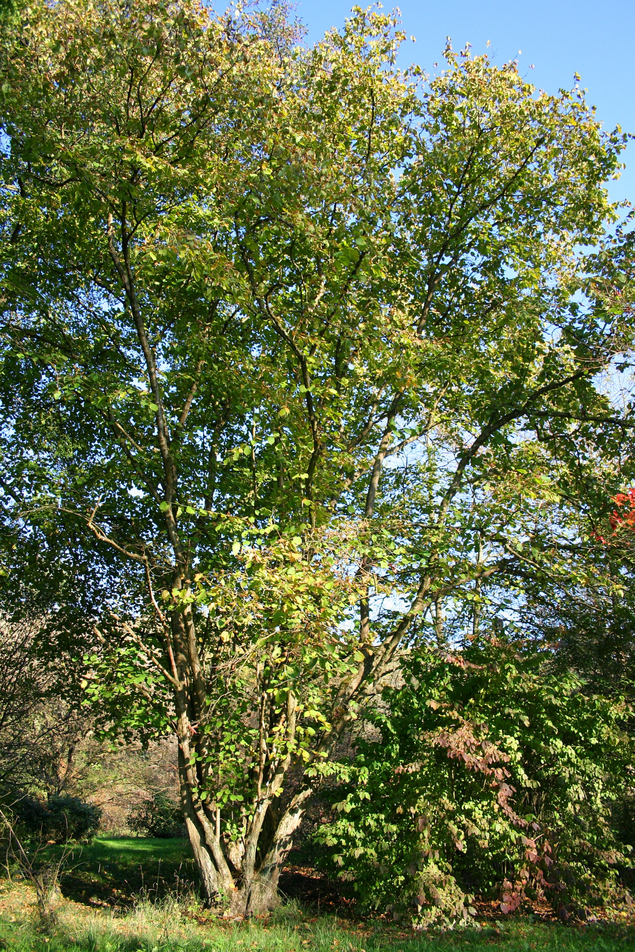 Chinese Hazel.